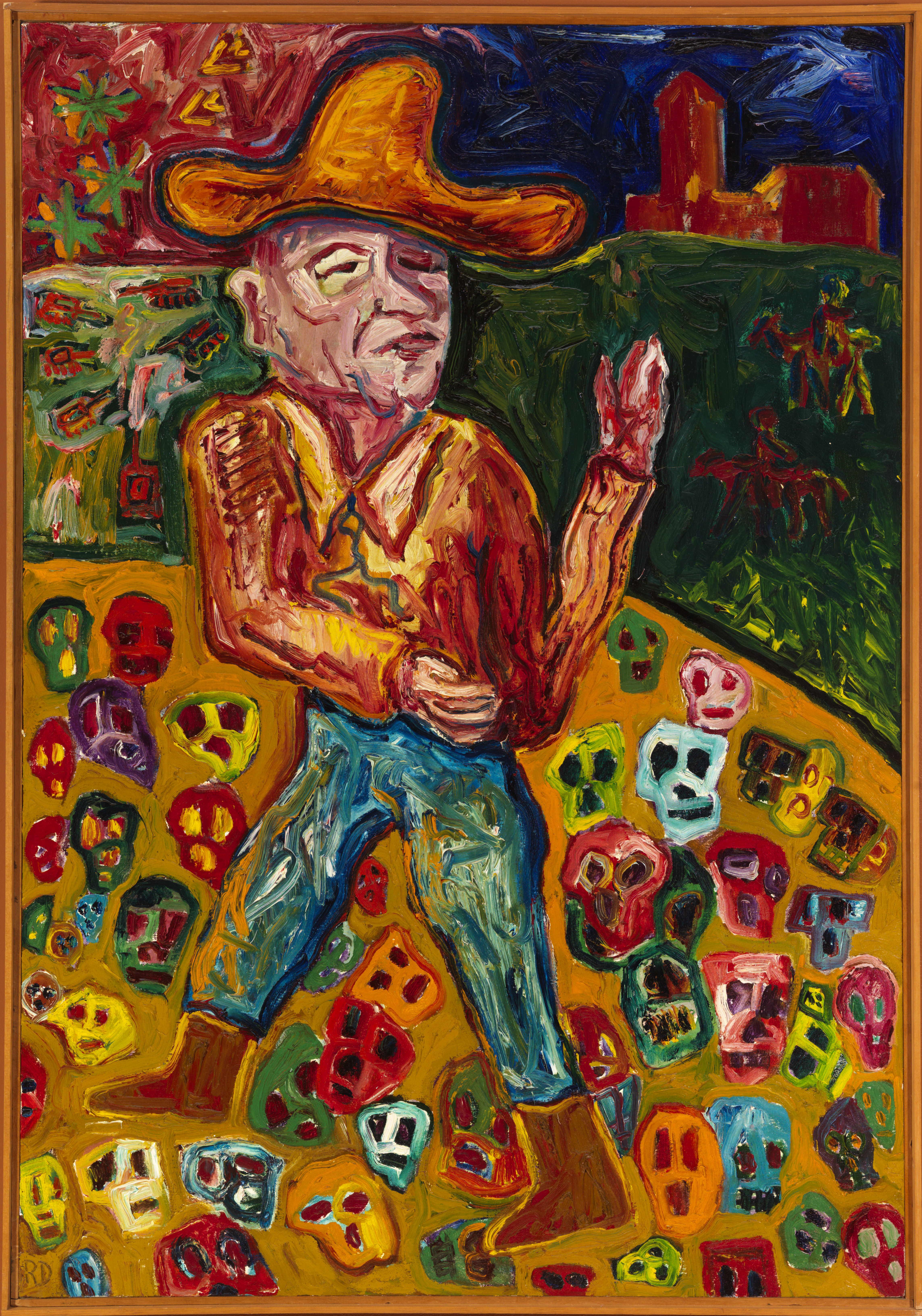 Original Painting protesting the Vietnam War by Robert Donley